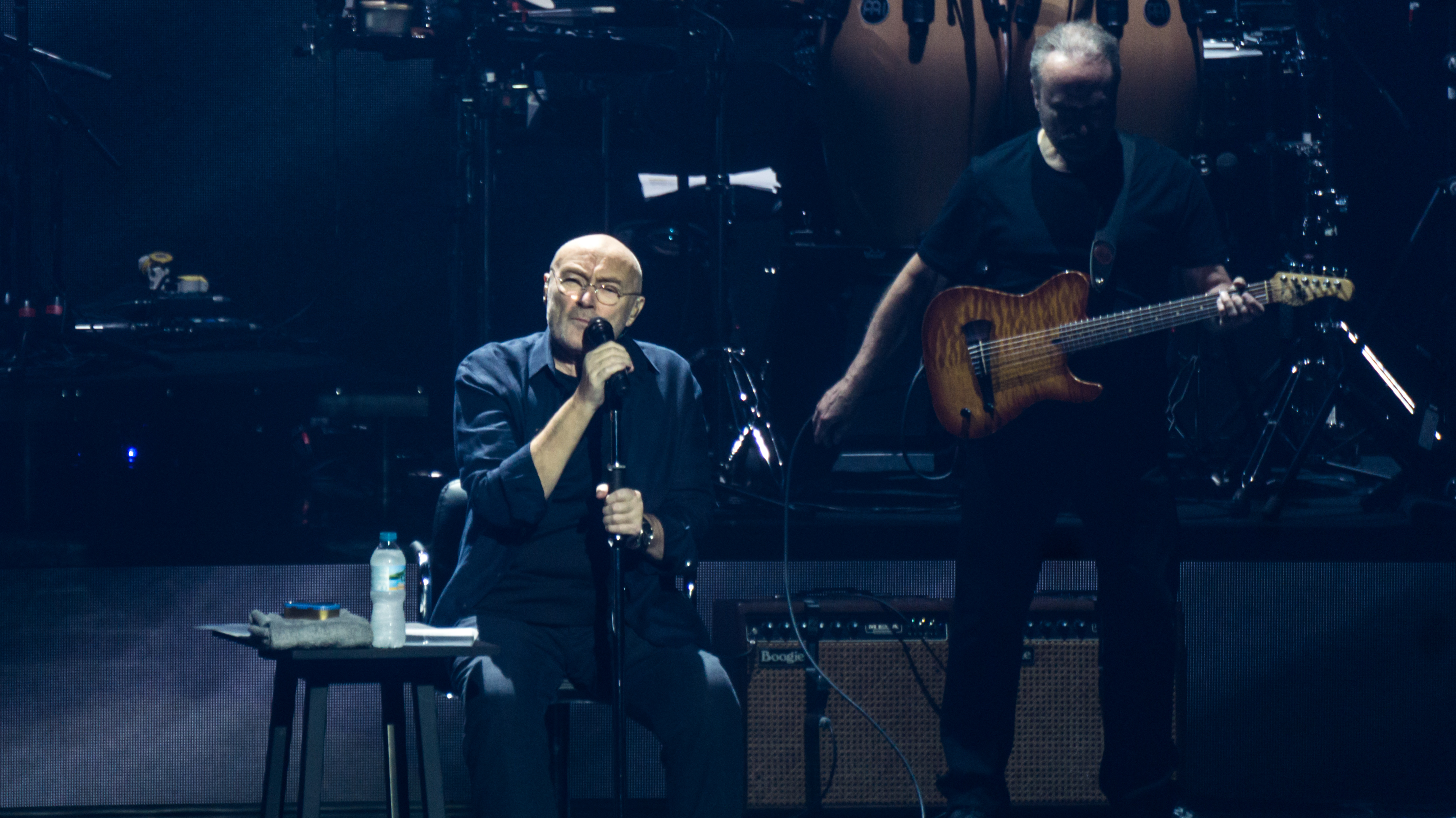 PhilCollinsRAH070617-7